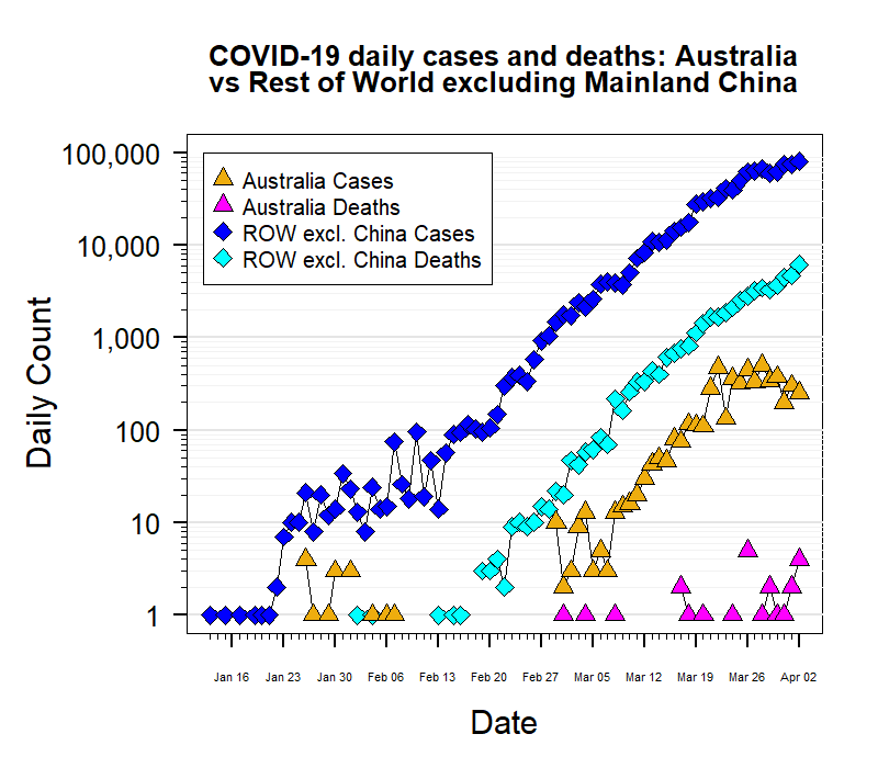 COVID-19 Daily cases and deaths Australia vs rest of world excluding Mainland China